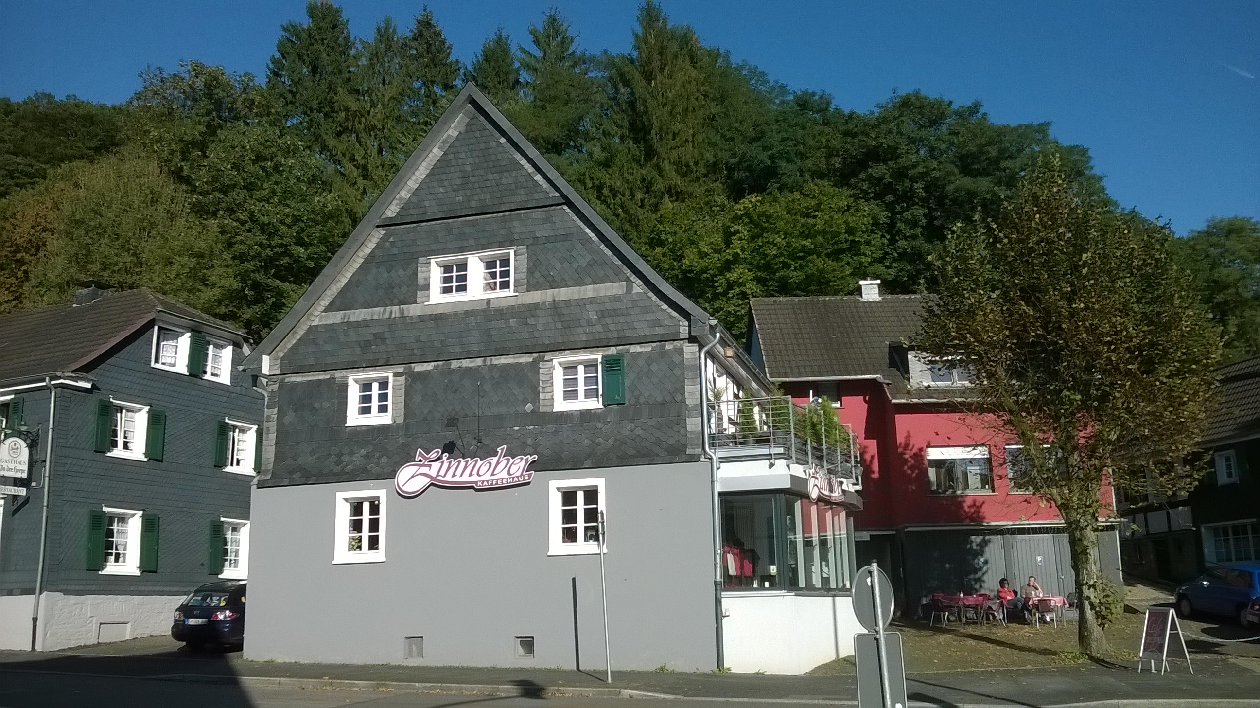 This is a photograph of an architectural monument., no. 0